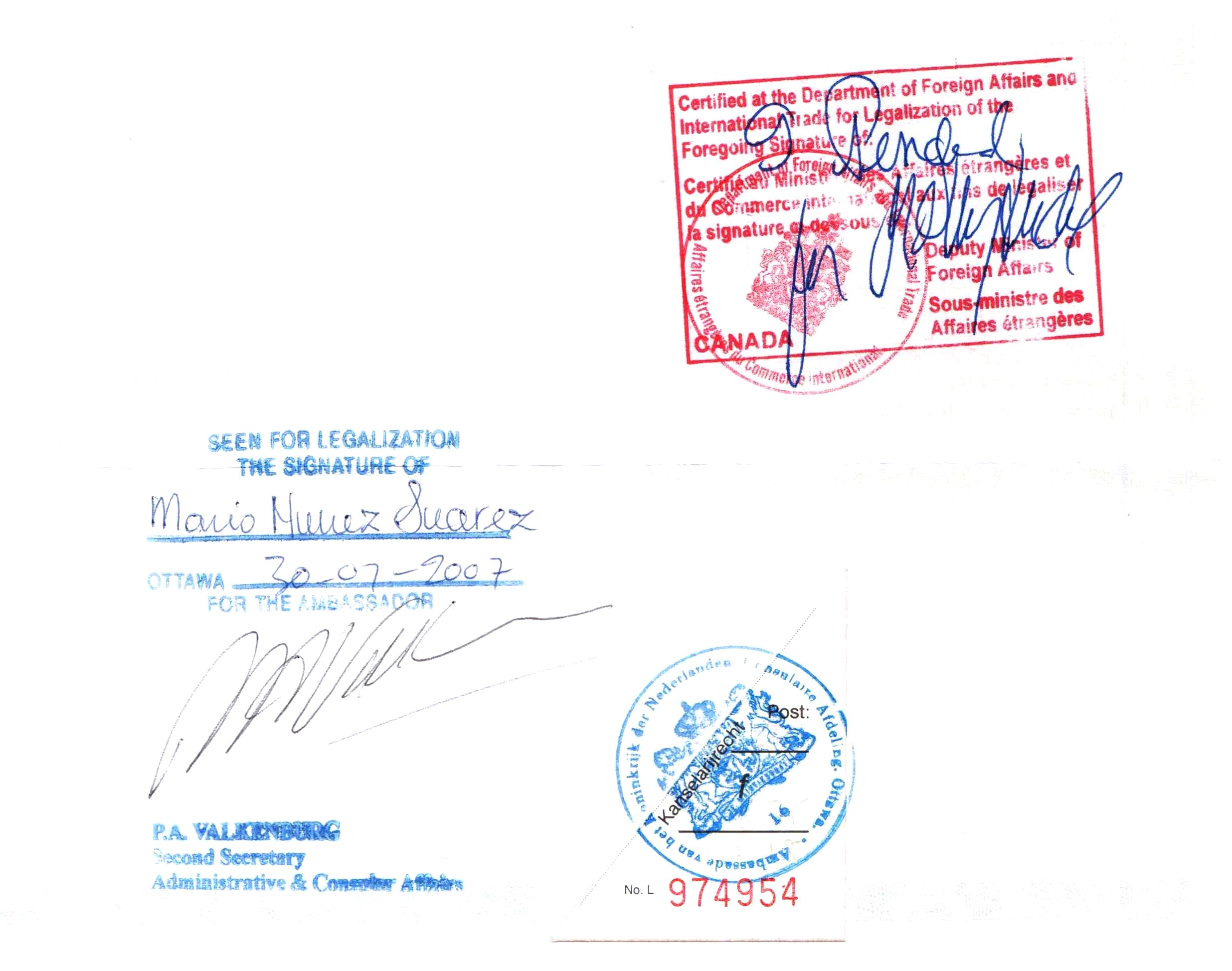 Legalized document